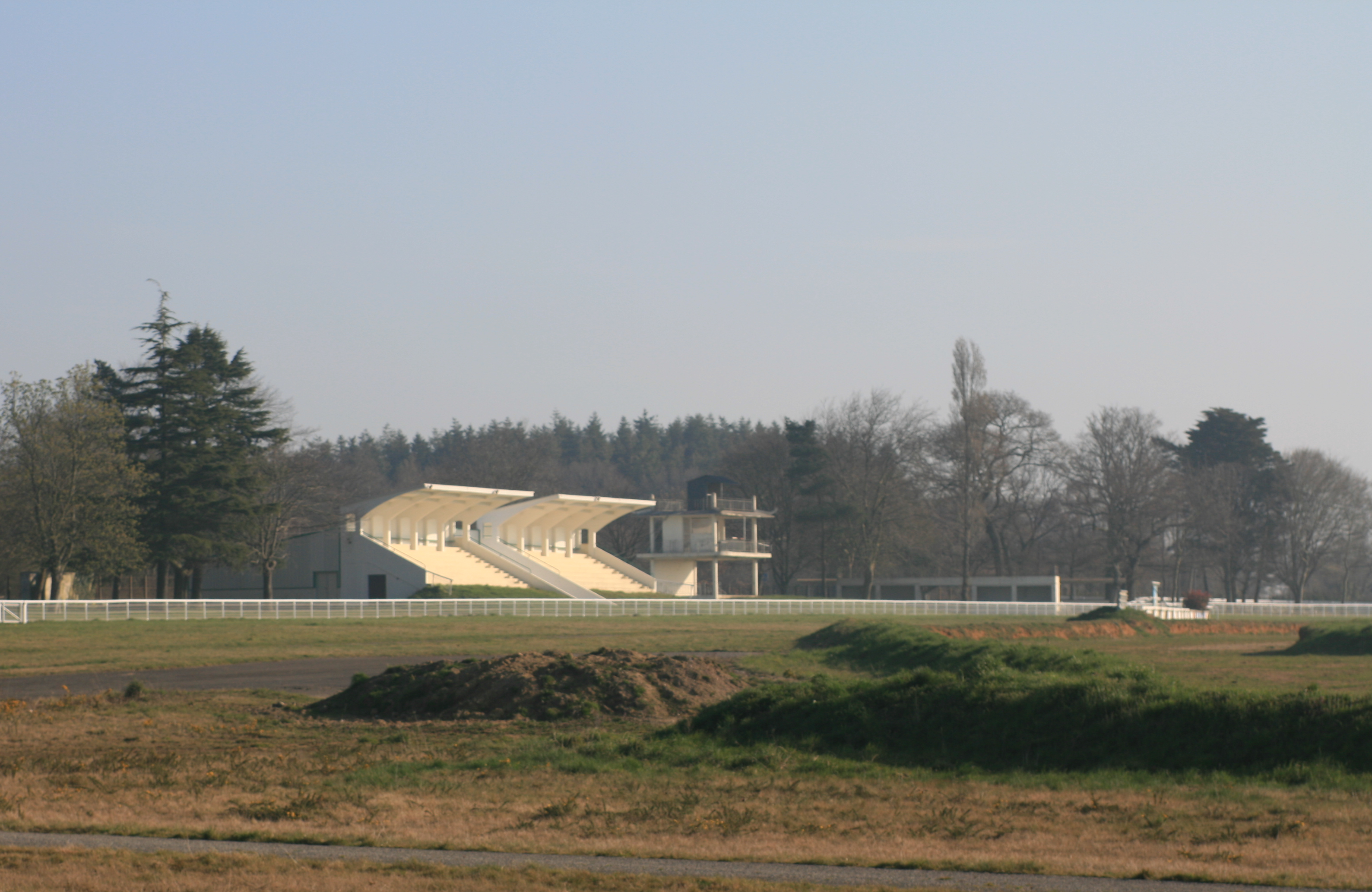 Hippodrome of Savenay